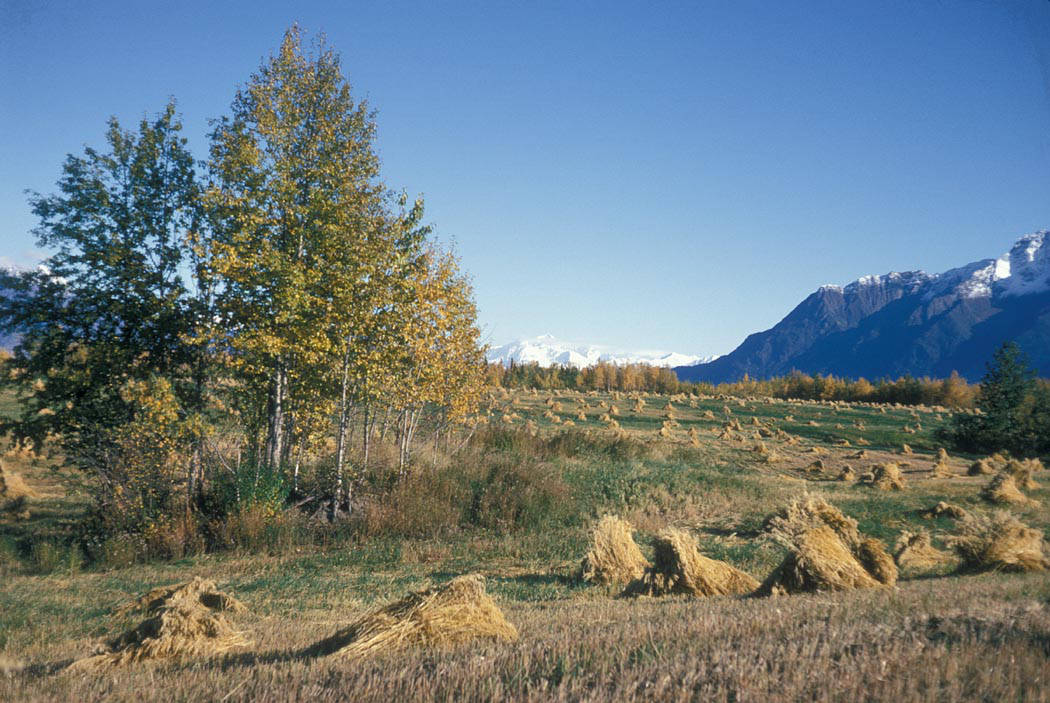 A farm with stacked hay in Matanuska Valley.